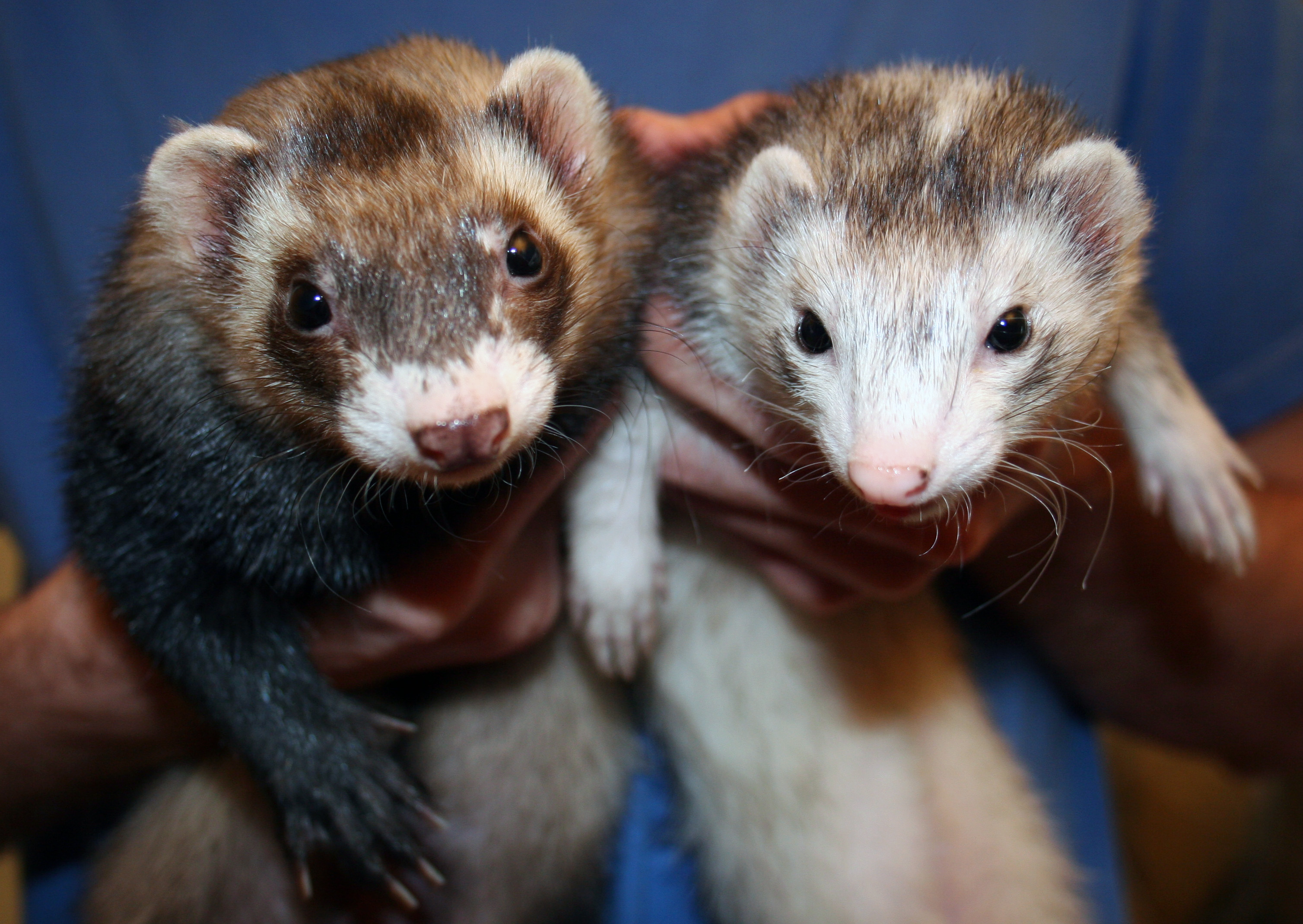 A pair of pet ferrets. To the left: the male ferret